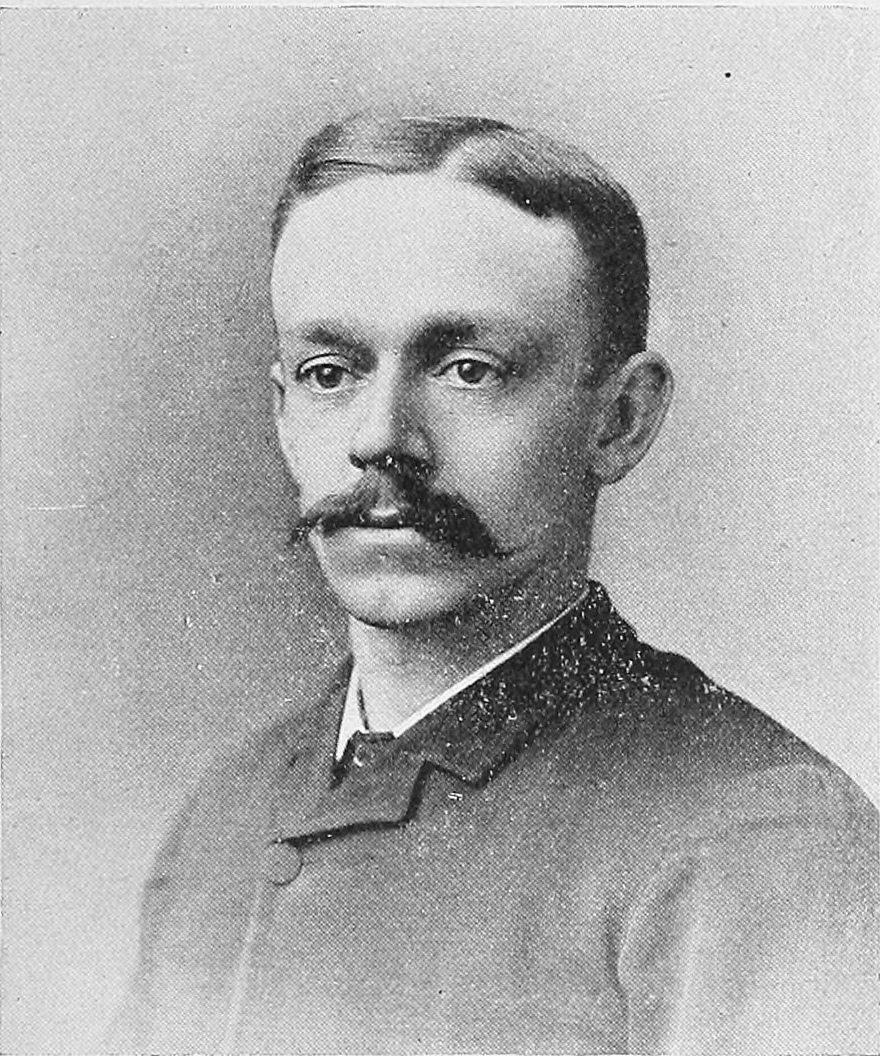 Portrait of Edwin Votey in 1895